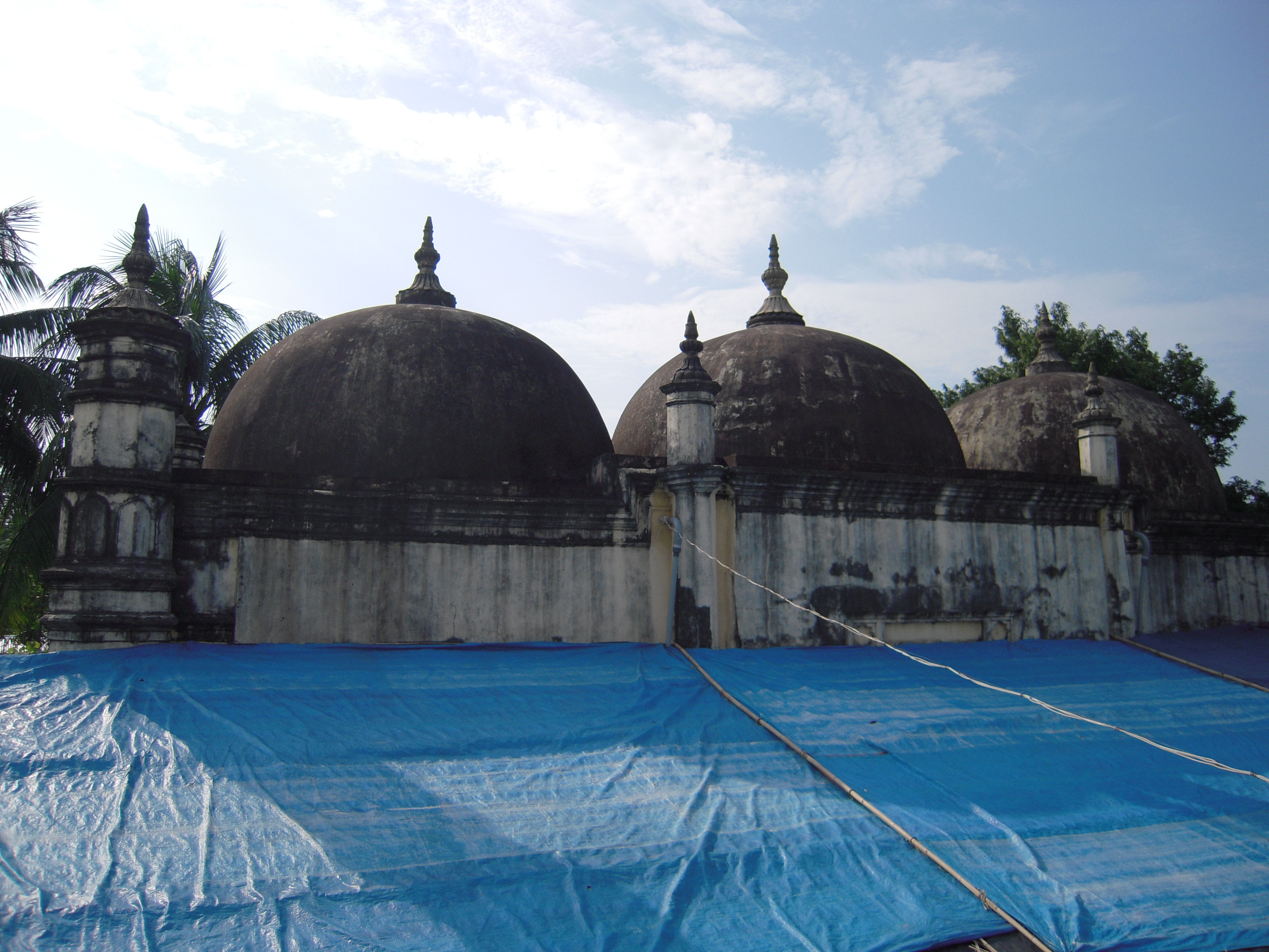 Three domes of the Panbari Mosque, Dhubri